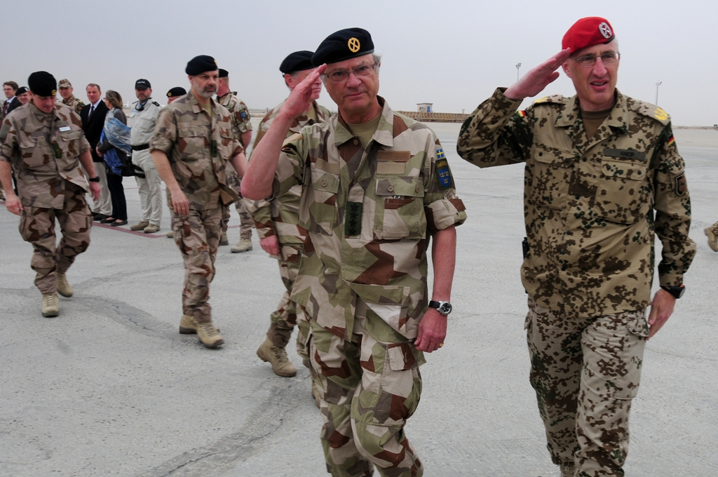 Commander, ISAF Regional Command North, Major General Markus Kneip, greets Swedish King Carl XVI Gustaf during an unannounced visit to Afghanistan on April 14th. King Gustaf met with country’s forces supporting NATO mission and praised the sacrifice his troops are making during the opening of a new military base 130 kilometers west of Mazar-e Sharif. Photo by TSgt. Bea Schoene.